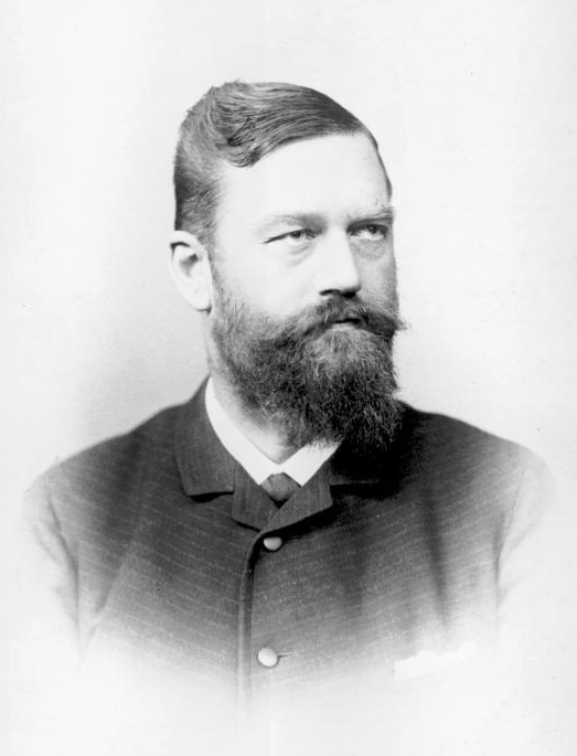 German musician Adolf Ruthardt (1849—1934)